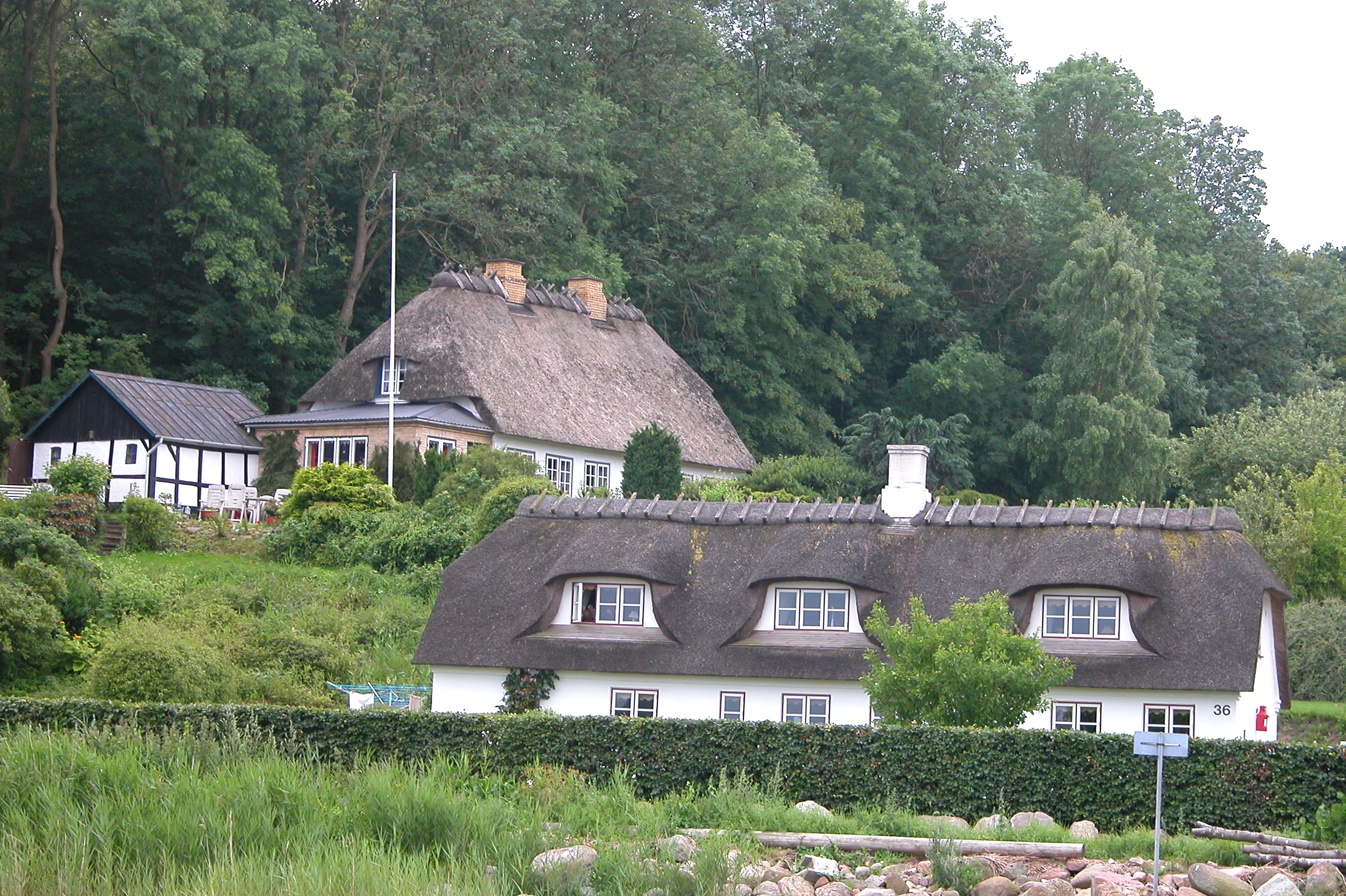 Sottrupskov - Denmark